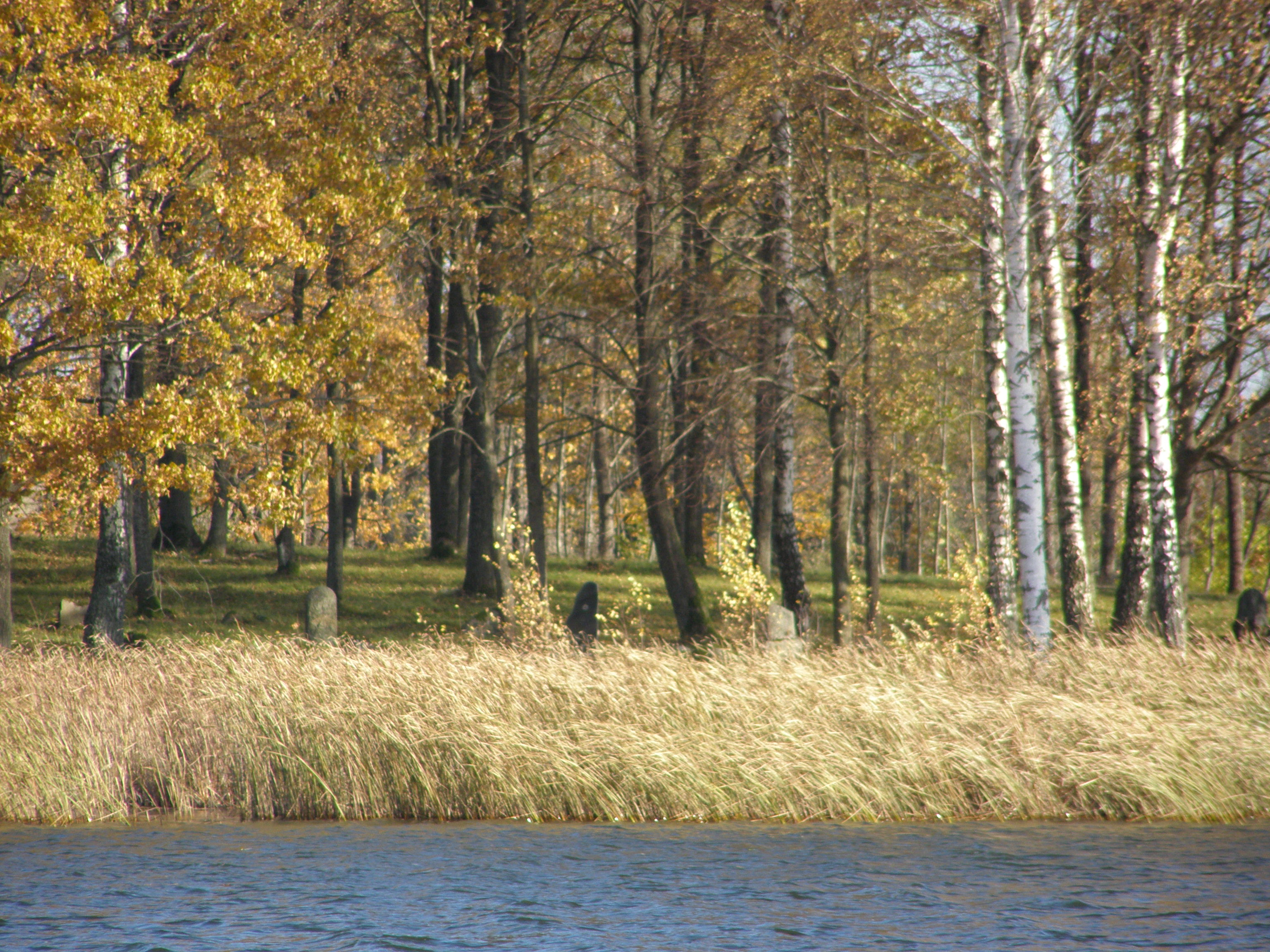 Mosedis Jewish Cemetery, Skuodas district, LithuaniaLietuvių: Mosėdžio žydų kapinės, Skuodo rajonas, Lietuva